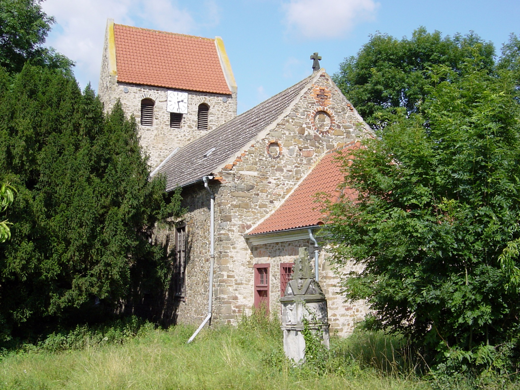 Protestant St. Bonifatius church in Ackendorf, Germany